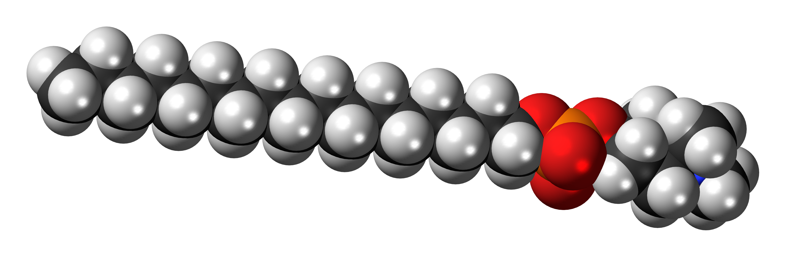 Space-filling model of the perifosine molecule, an anti-cancer drug. This image shows the zwitterionic form. Colour code: Carbon, C: black Hydrogen, H: white Oxygen, O: red Nitrogen, N: blue Phosphorus, P: orange